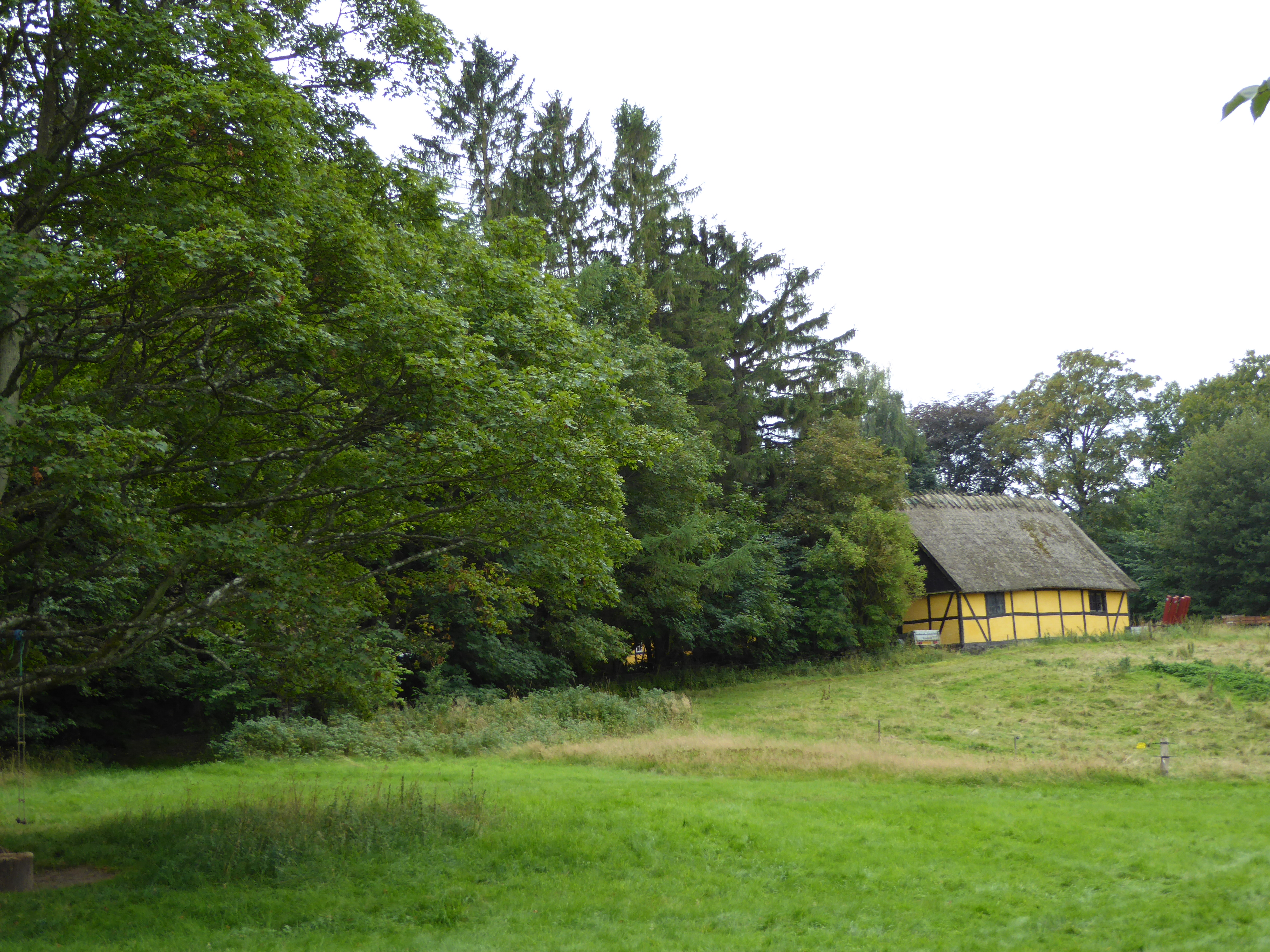 Dæmpegård in Tokkekøb Hegn, North Zealand, Denmark